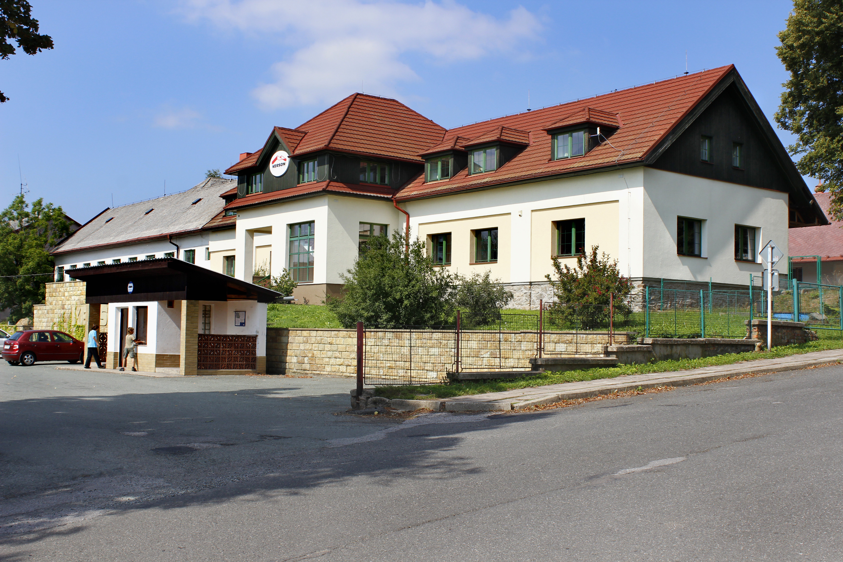 Middle part of Dobré village, Czech Republic